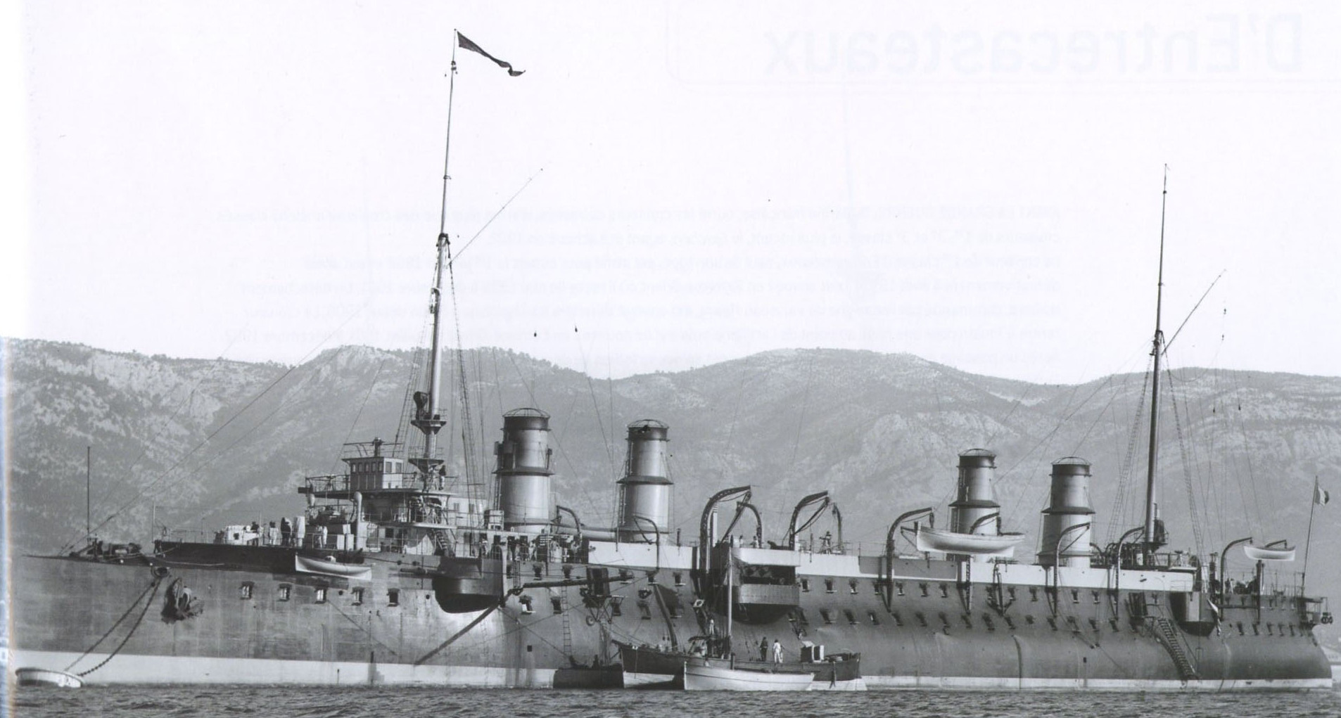 French protected cruiser Guichen in 1898. She saved the lives of 4000 Armenians from annihiliation during the Armenian Genocide in Musa Dagh Resistance.